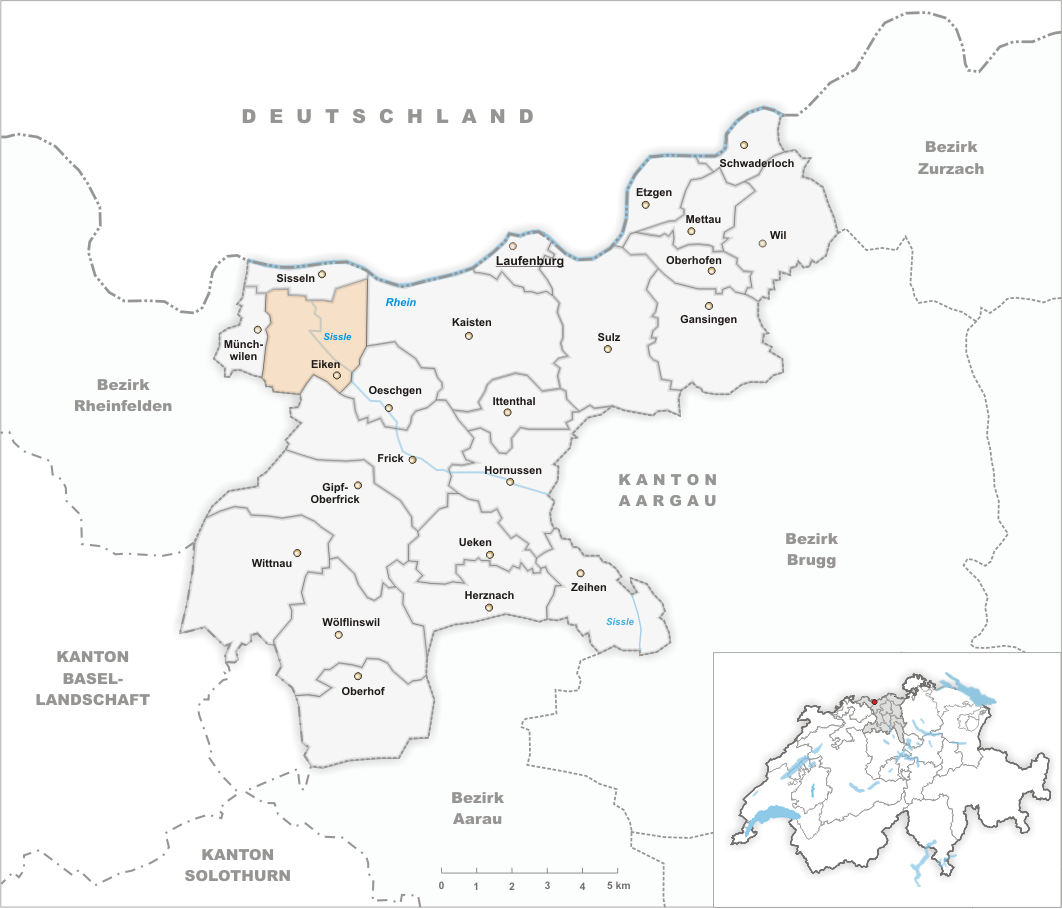 Municipality Eiken